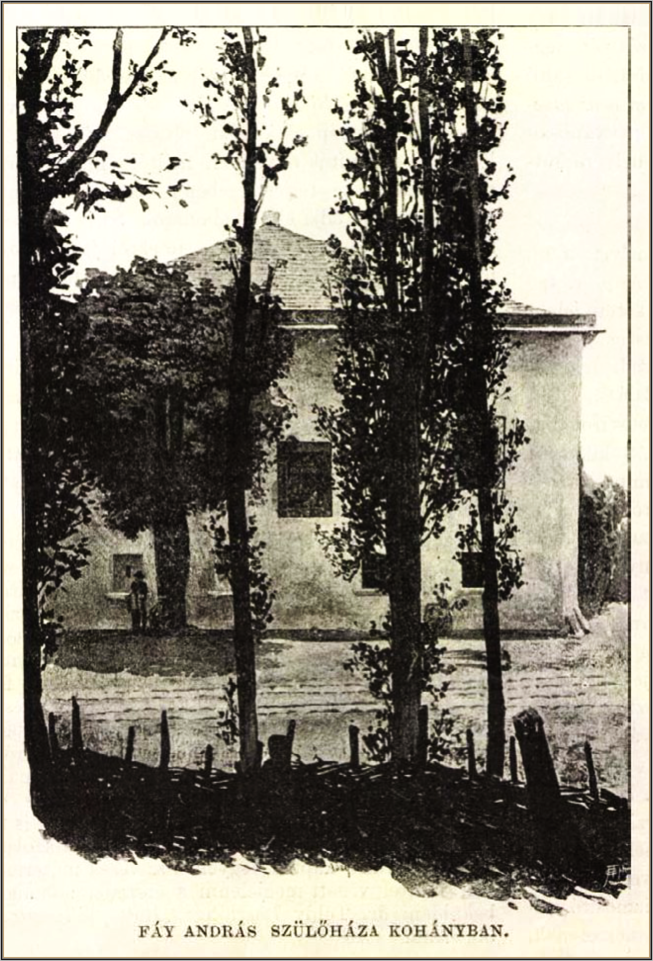 House of Fáy András